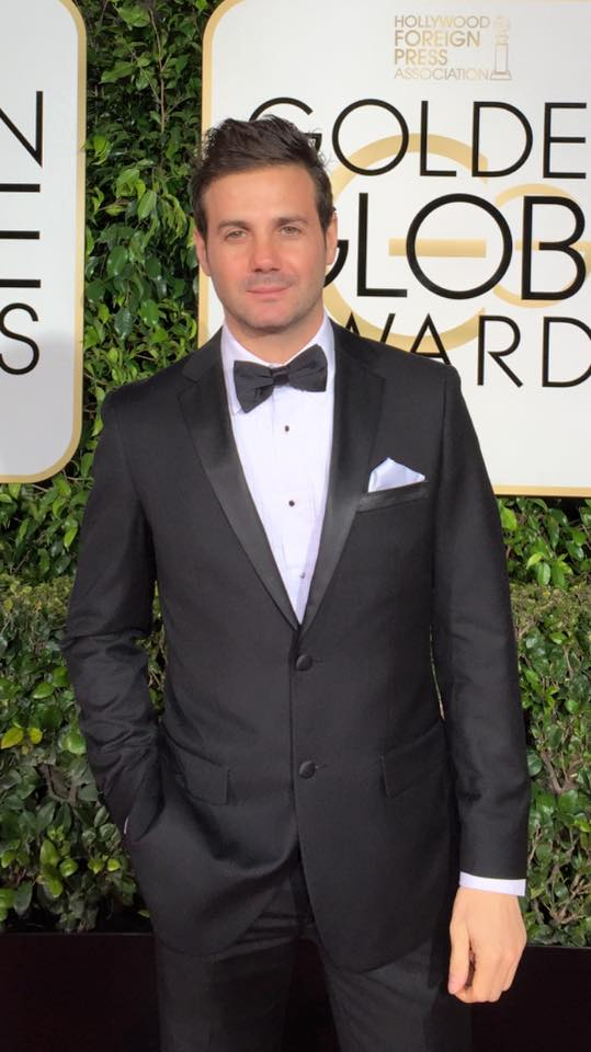 Director Producer Christian Filippella attends the 2015 Golden Globes Awards